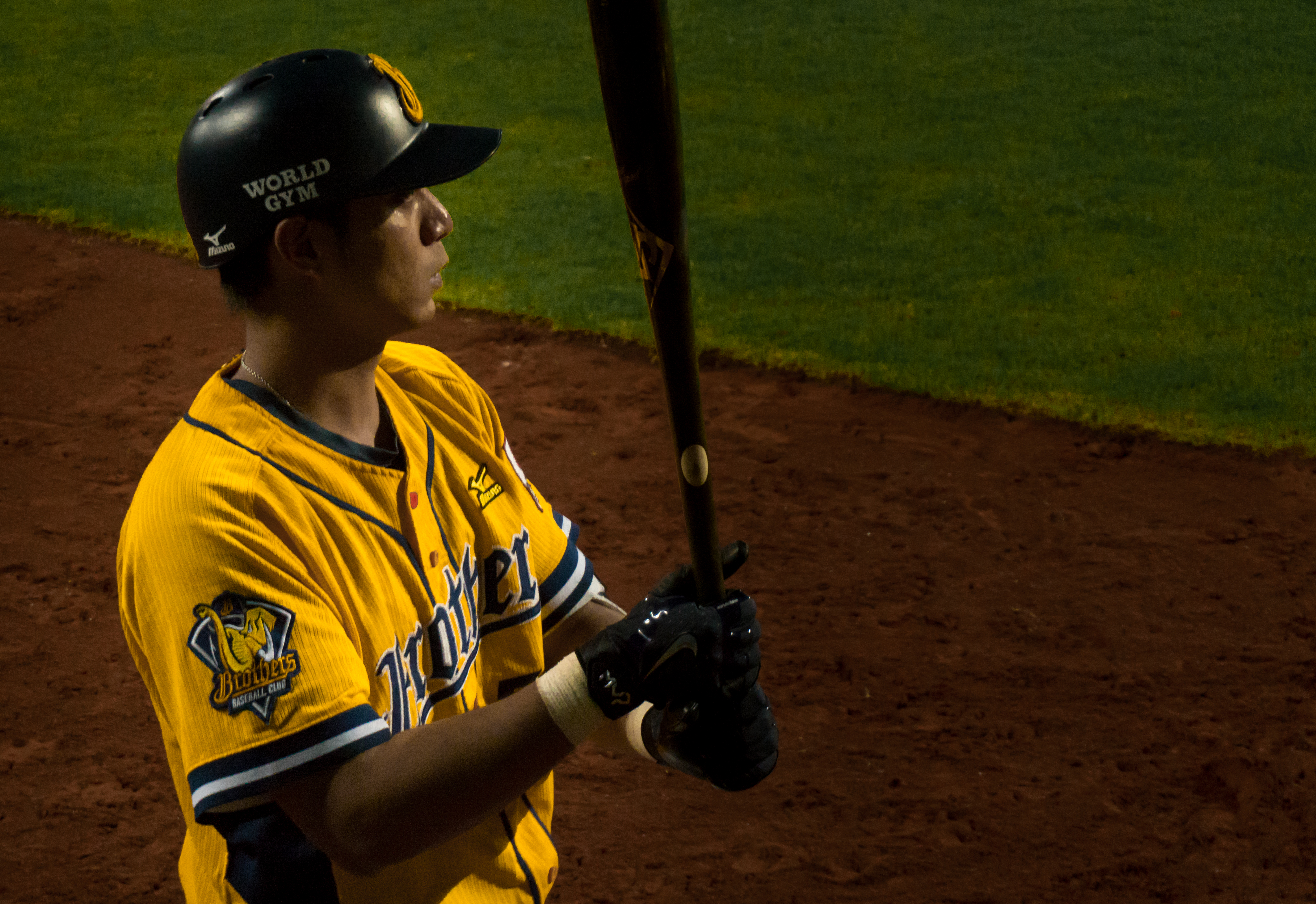 20170801曾陶鎔